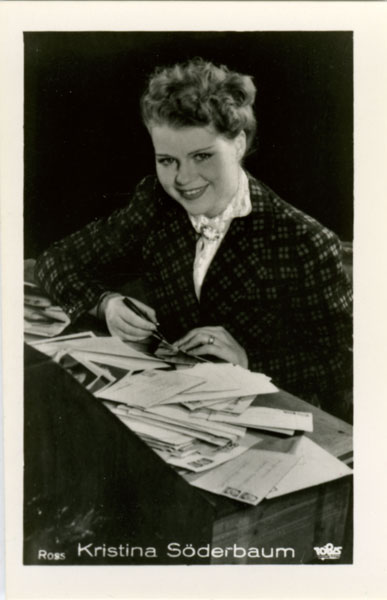 Kristina Söderbaum, Swedish actress